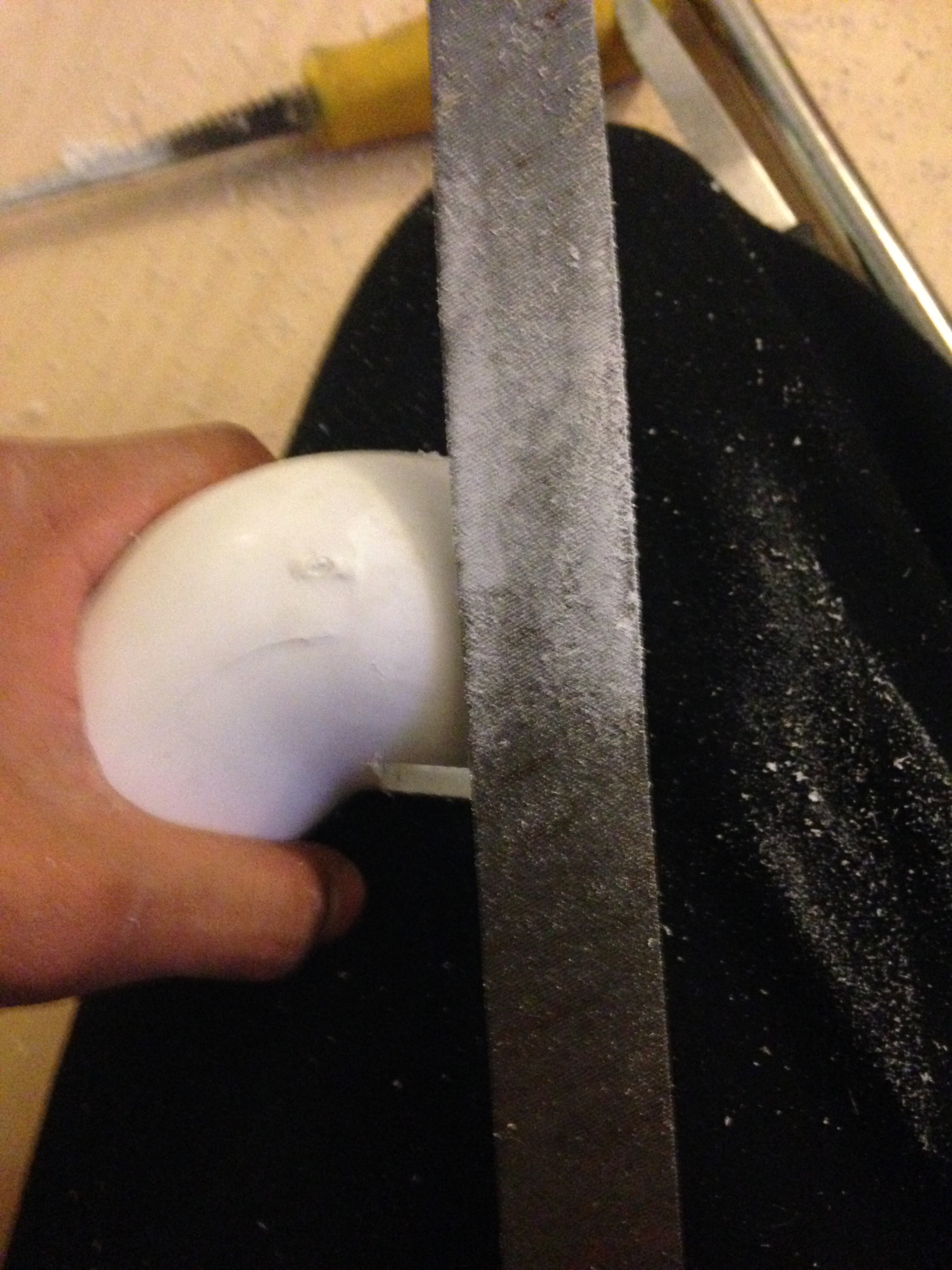 Sand the edges so that the wheel fits